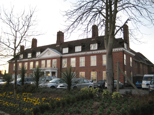 The Peace Hospice, Watford The Peace Hospice is run by a charitable trust and provides specialised palliative care for people with terminal illnesses in the South West Hertfordshire area. The building was originally the Peace Memorial Hospital and the Hospital Records Database has this to say about it: The Peace Memorial Hospital in Watford began life as the Watford District Cottage Hospital in the 1880s. However, by 1917 the idea of replacing the cottage Hospital with a more modern hospital, as a memorial to those who had died in the First World War and as a permanent memorial to peace, was discussed. The project was financed on the whole by public subscription and donation. The Watford Board of Guardians bought the old cottage hospital and a new building was erected in Rickmansworth Road. The Watford and District Peace Memorial Hospital was opened in 1925 by Princess Mary. On 5 July 1948 control of the hospital passed to the North West Metropolitan Hospital Board and became known as the Watford Peace Memorial Hospital. In 1965 the hospital moved to a site in Vicarage Road on the edge of Watford and became a part of Watford General Hospital. In 1985 the remaining services in the original building were moved to the Shroedells (the old workhouse) site and in 1986 the buildings were demolished. This last statement is patently untrue. The two wings and some of the clutter behind were demolished but the central building was restored and refurbished to accommodate the hospice which opened, originally as a day centre, in 1996, and then for inpatients in 2001